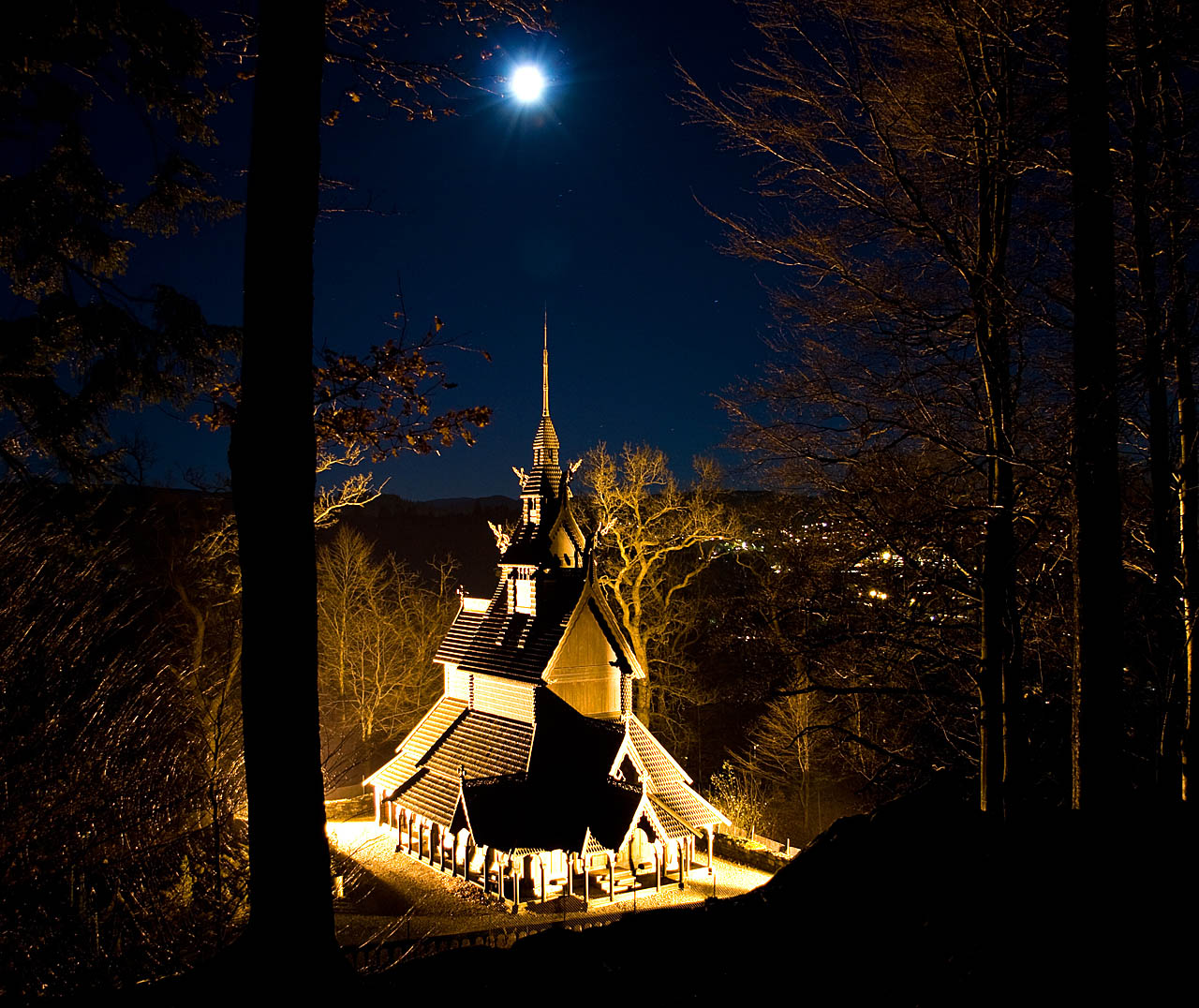 Fantoft stave church in Bergen, Norway